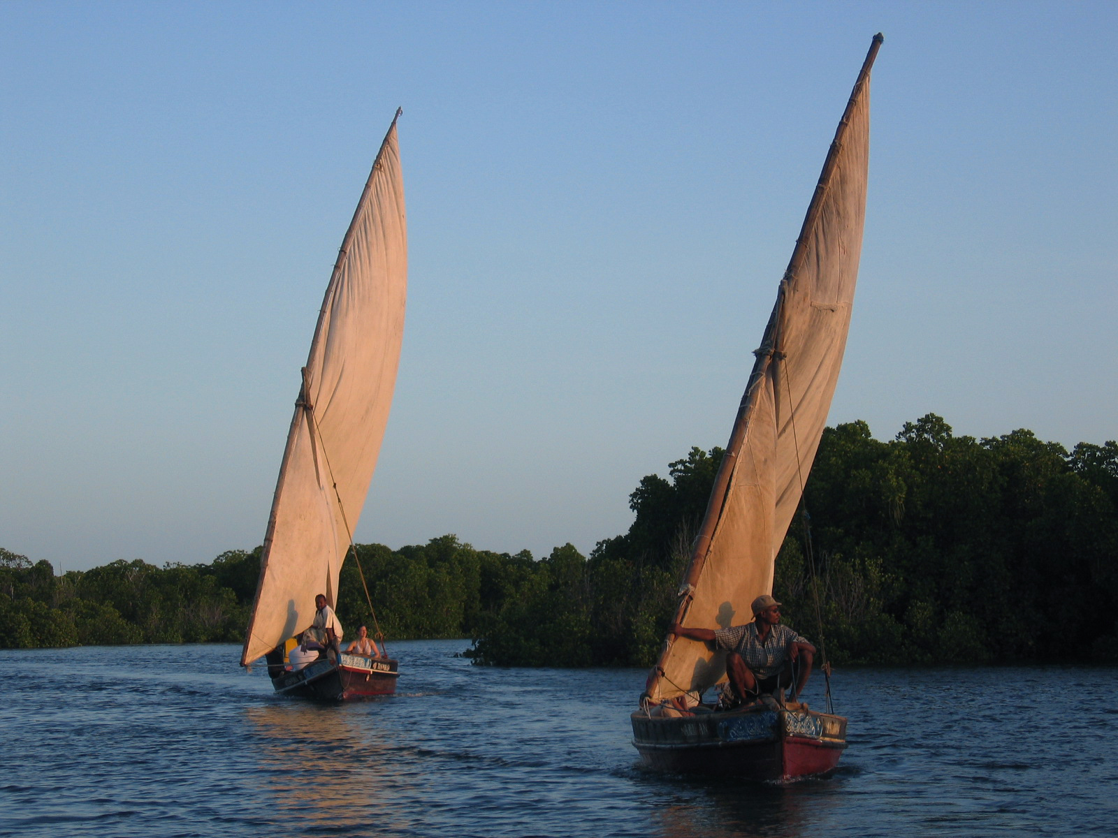 Dhows in Lamu, Kenya